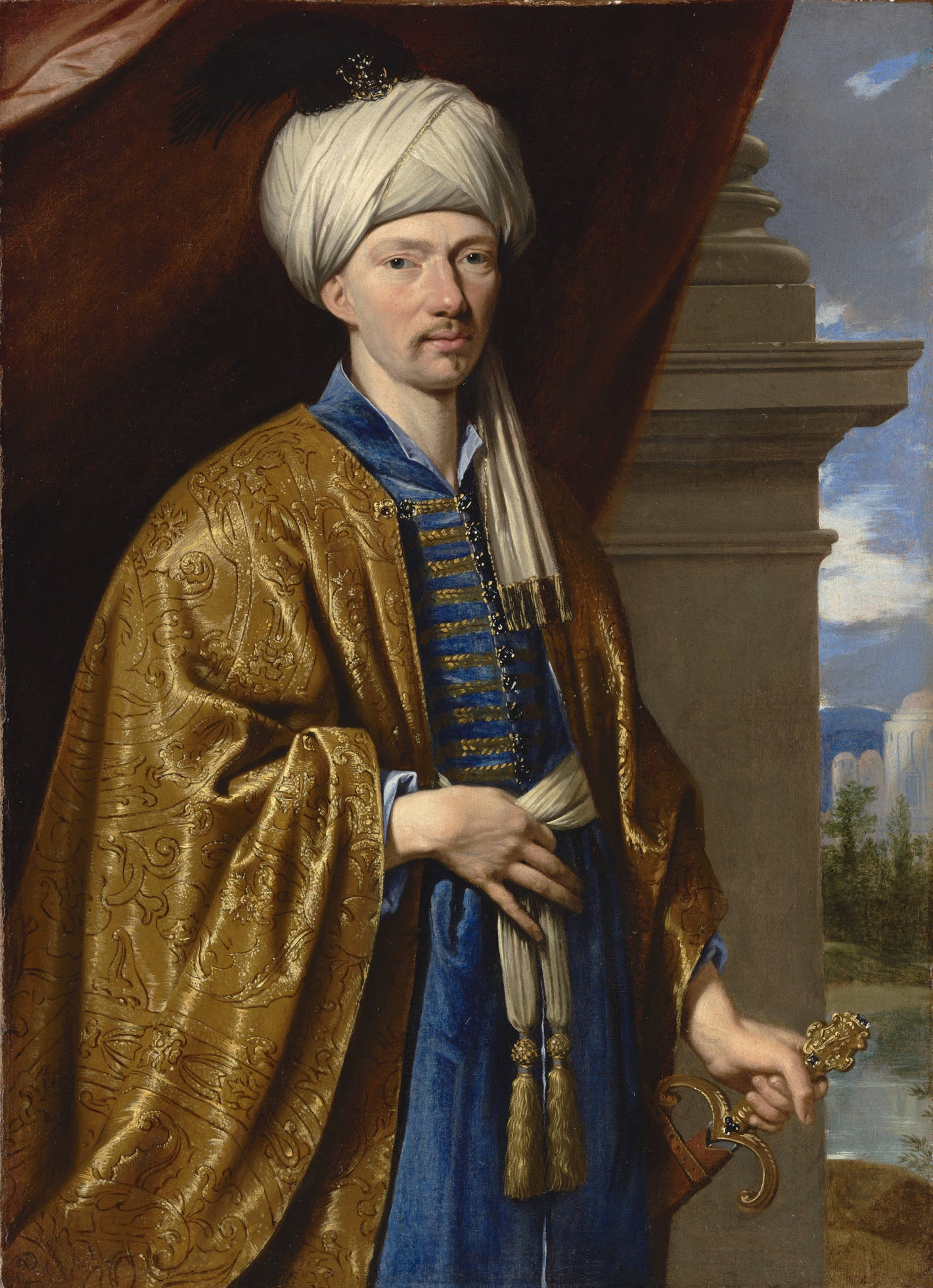 Philippe de Champaigne, Portrait of Jean de Thévenot, ca. 1660 (formerly believed to be a portrait of Antoine Galland by Gerbrand van den Eeckhout) Oil on canvas, 59.7 x 43.2 cm, The Huntington Library, inv. 2010.2